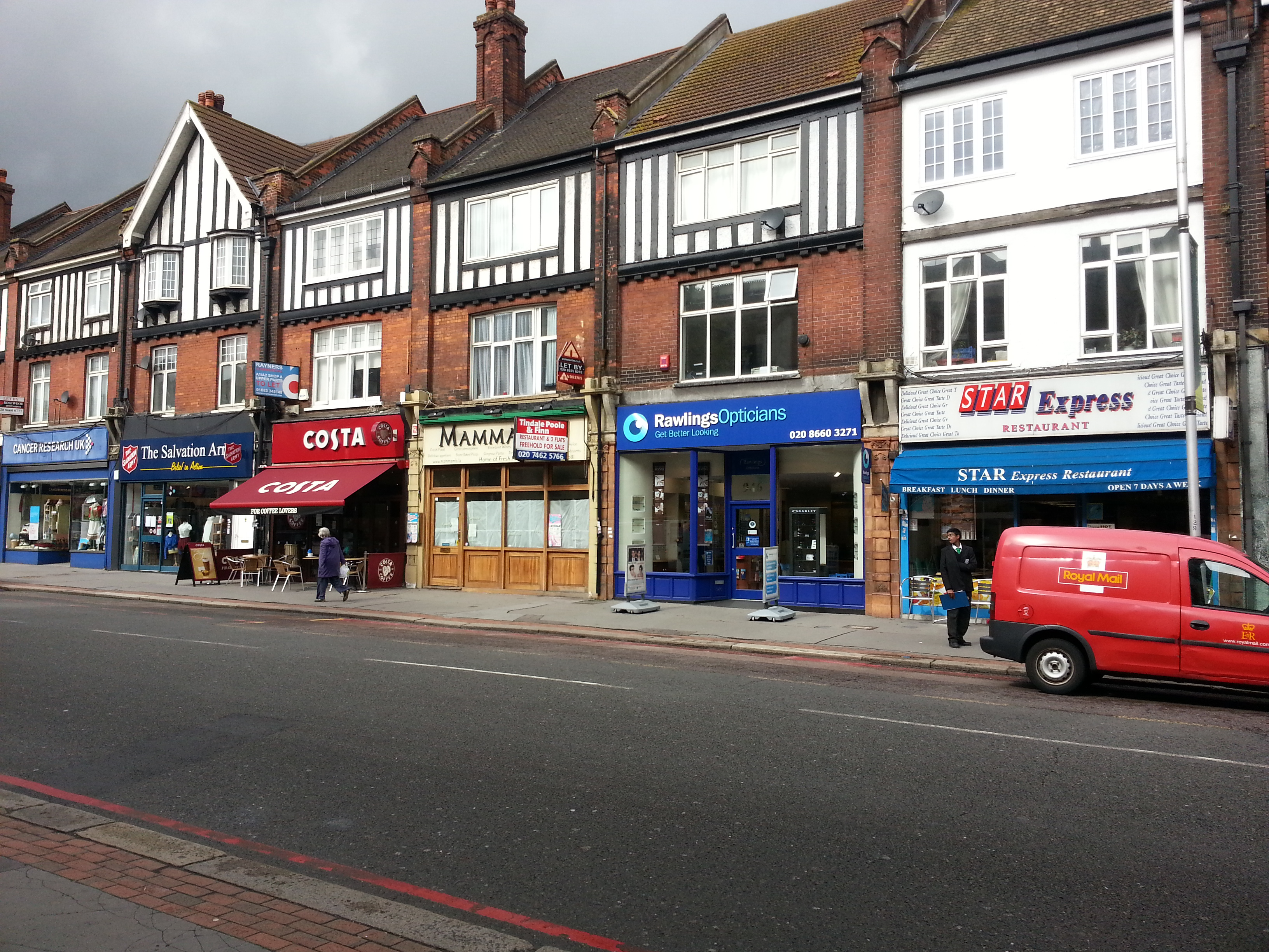 Purley, UK